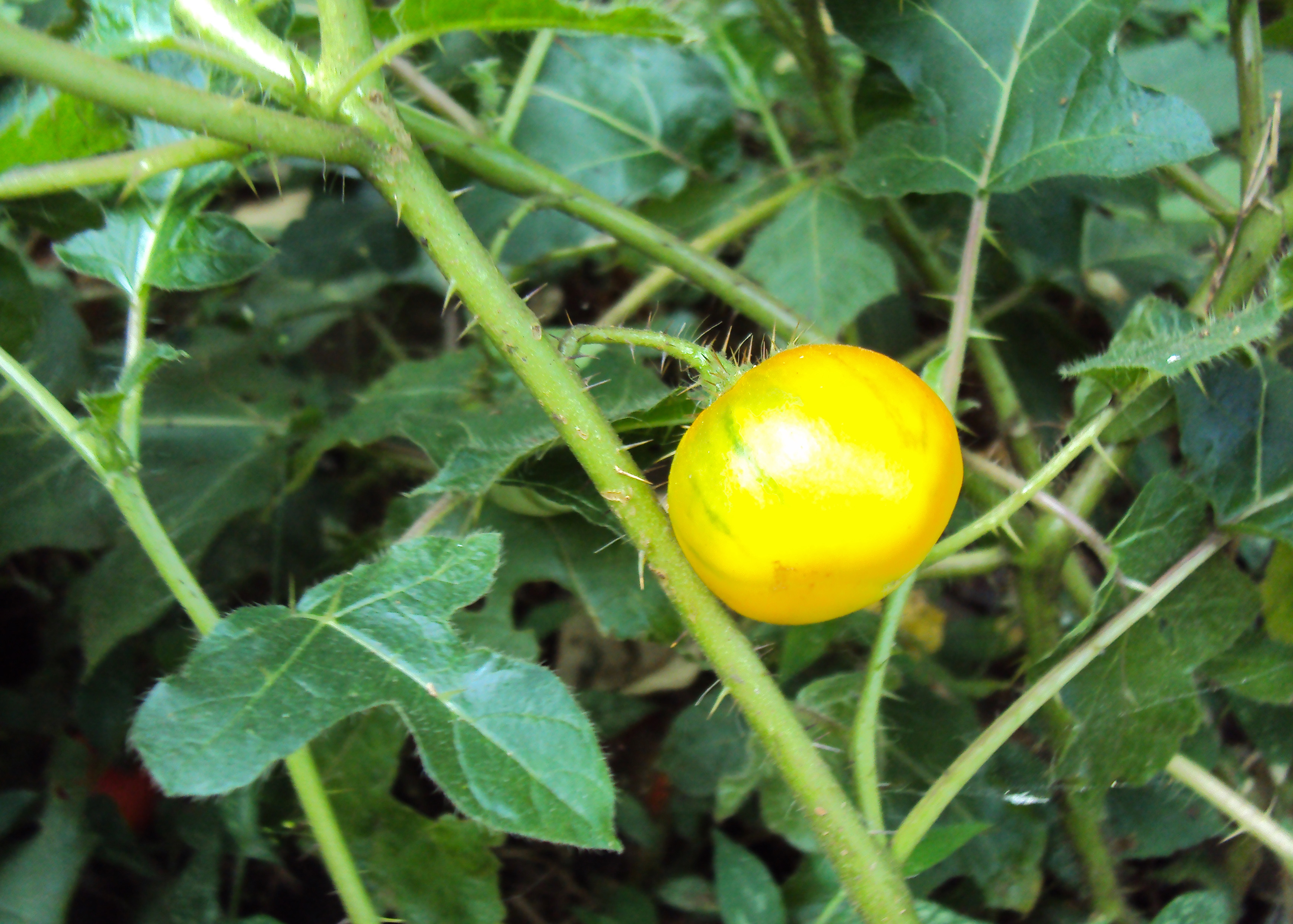 Solanum aculeatissimum